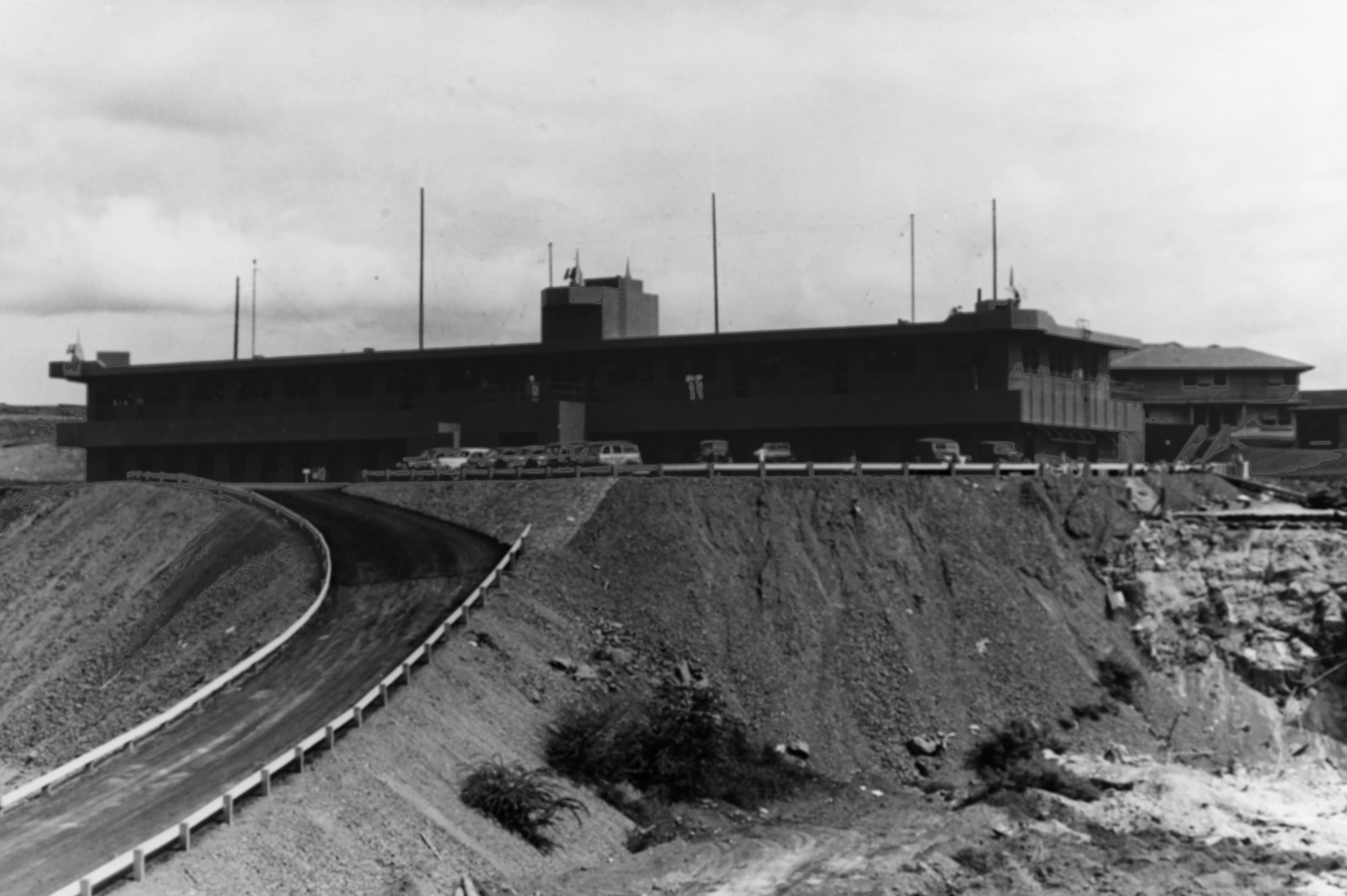 U.S. Navy CINCPAC Headquarters, Makalapa administration building, 27 August 1942-15 August 1945. The photograph shows the front (northwest face) of the building as it appeared from September 1942 until August 1943. Copied from United States Naval Administration in World War II, Commander in Chief, United States Pacific Fleet and Pacific Ocean Areas, appendix vol. 1.